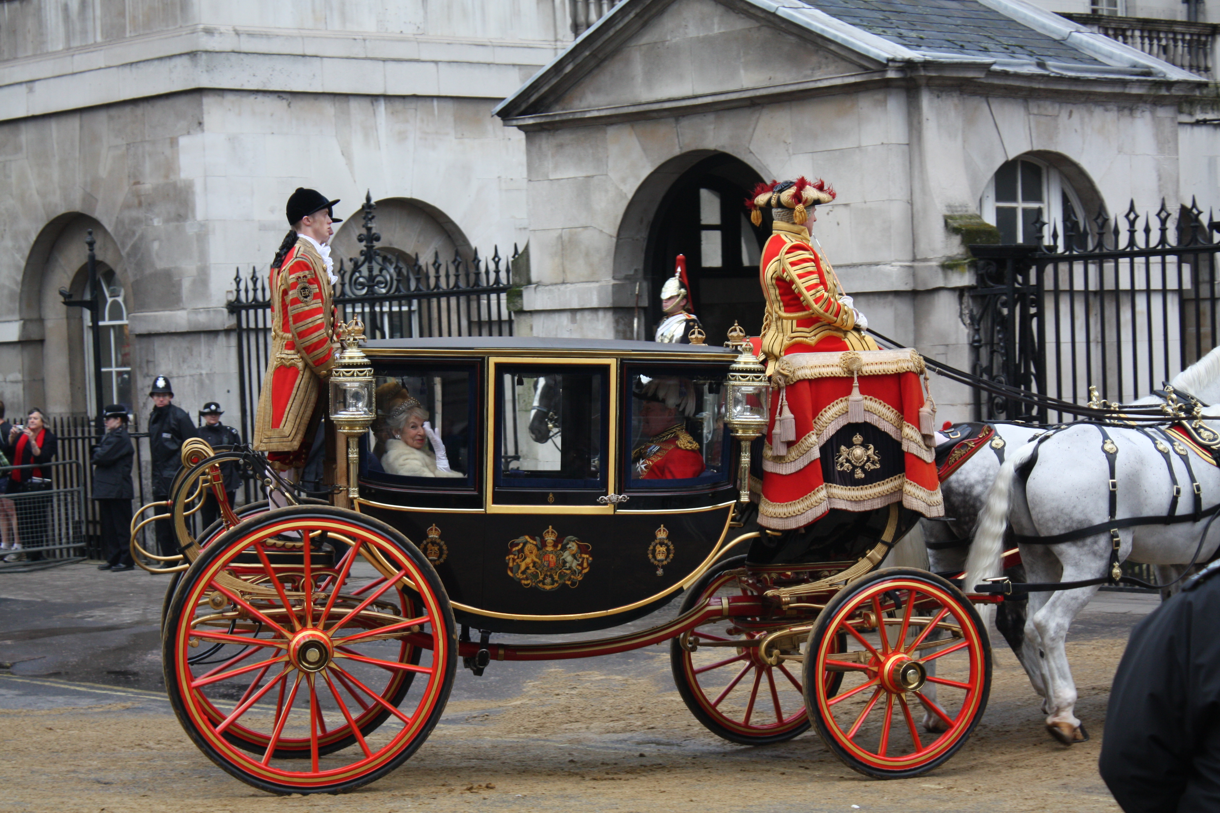 Royal Procession along Whitehall from the Houses of Parliament back to Buckingham Palace, 3rd December 2008